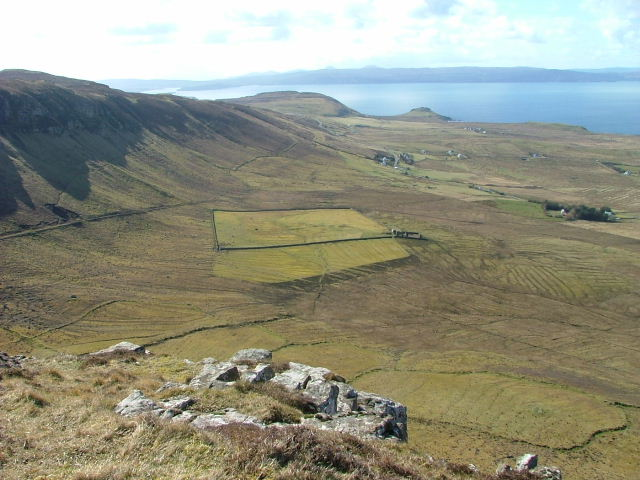 Slopes of Creag Stoirm. Overlooking croftland at Linicro with Loch Snizort and Waternish in the distance.